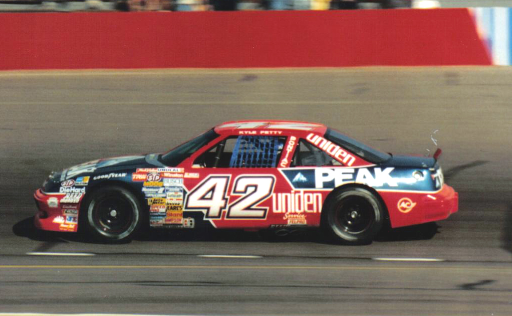 The Felix Sabates owned Peak Pontiac of Kyle Petty finished 21st in the 1989 Checker Autoworks 500.